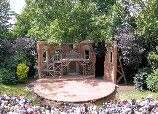 We went to see Romeo and Juliet in Regent's Park open air theatre.